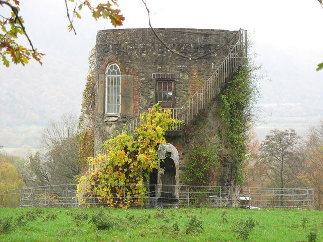 Maenan Hall Folly Folly Tower overlooking Maenan Hall and the Valley.